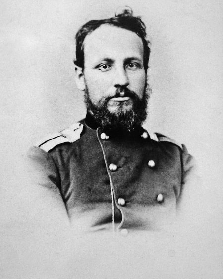 Major Sava Grujić 1876, Serbian Army